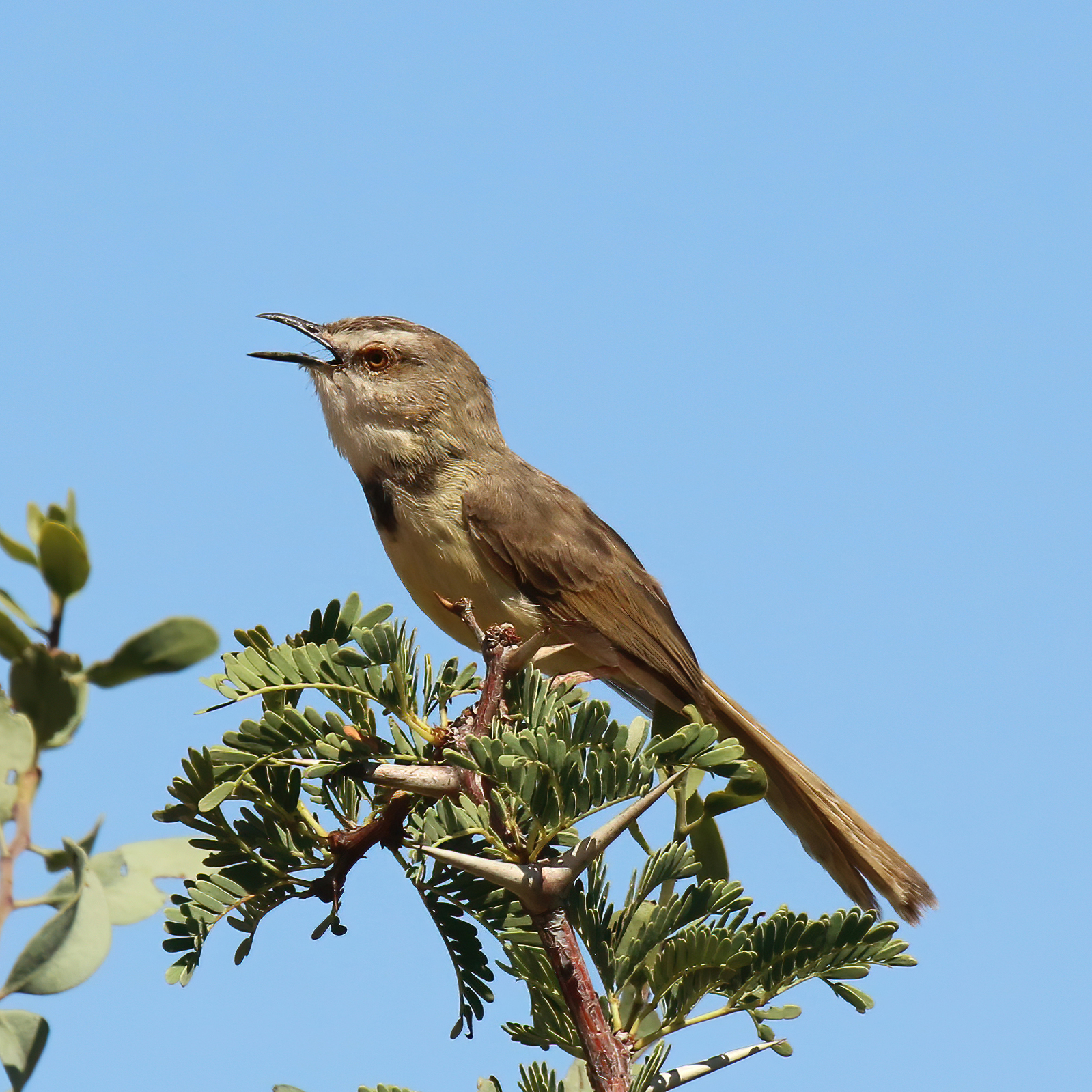 Black-chested prinia (Prinia flavicans) breeding female, Tswalu Kalahari Reserve, South Africa